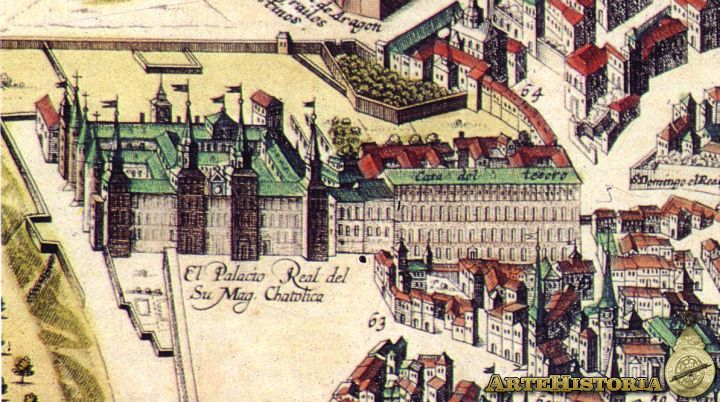 Casa del Tesoro (House of Treasure) to the right and Royal Alcazar of Madrid to the left.